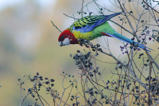 Eastern Rosella (Platycercus eximius). Cheltenham, NSW, Australia. 29 August 2005.